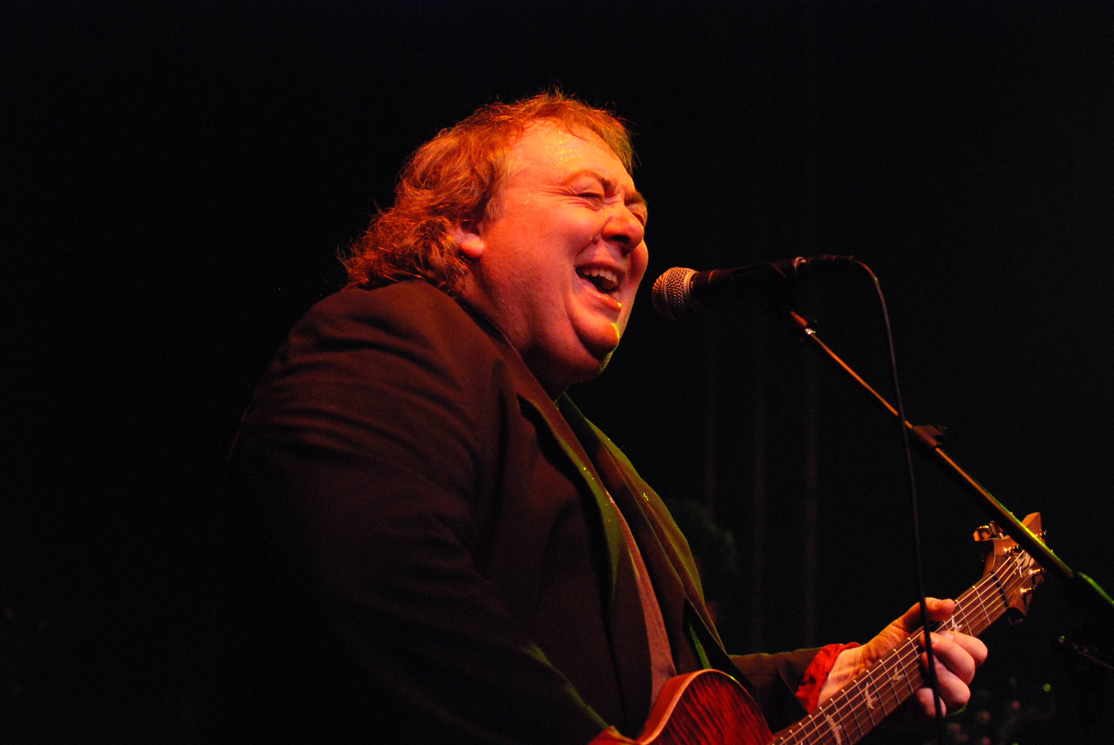 Bernie Marsden performing on December 9, 2007 in Zoetermeer Holland